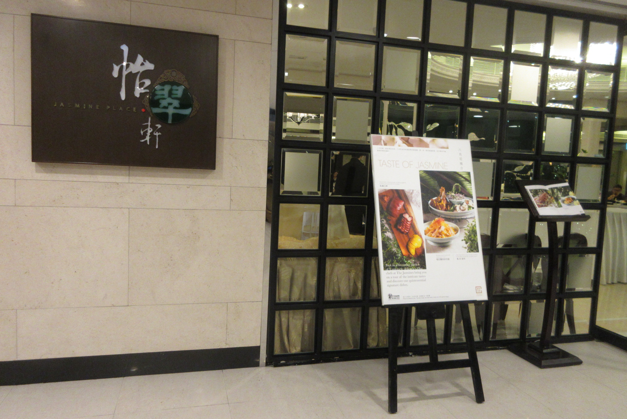 怡和大廈, Jardine House, Central, Hong Kong